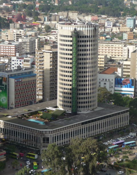 Hilton Hotel Nairobi